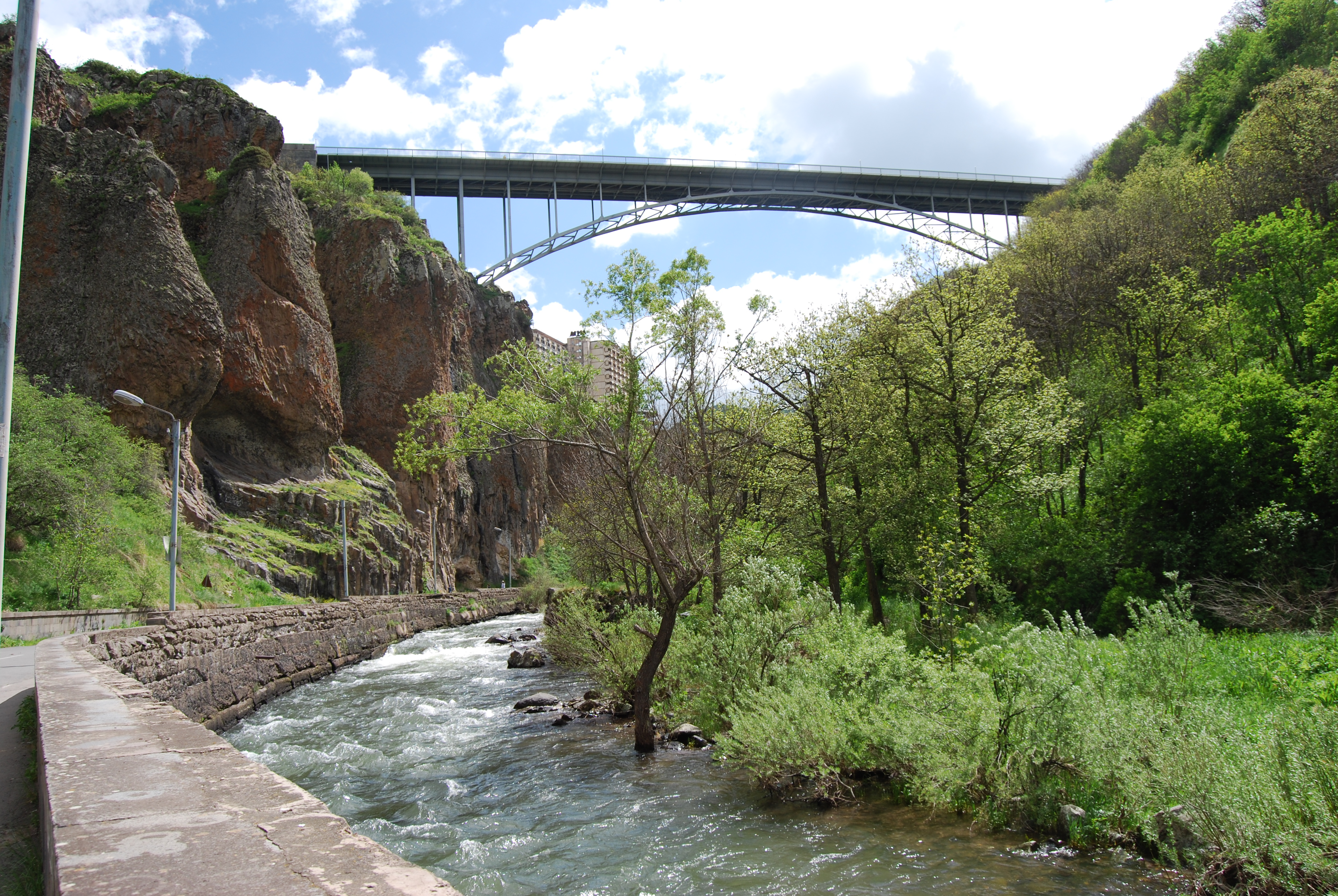 A bridge in Jermuk in southern Armenia.